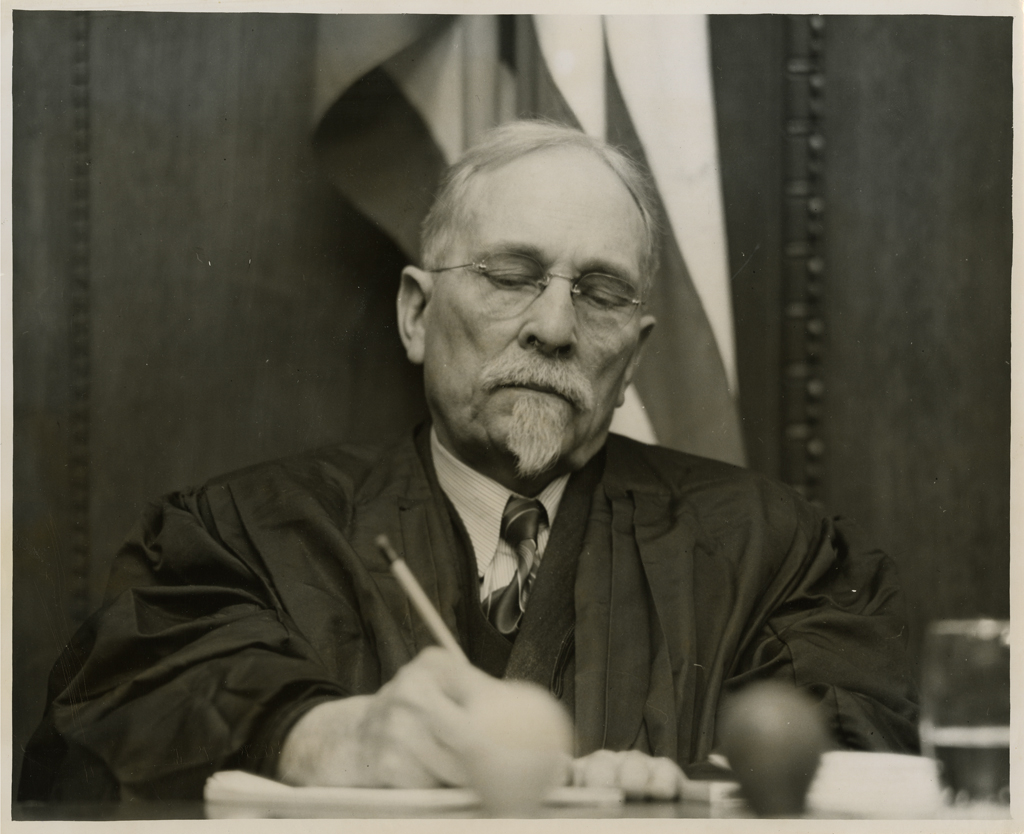 Carrington T. Marshall was presiding judge of Judges' Trial in Nuremberg in 1947.